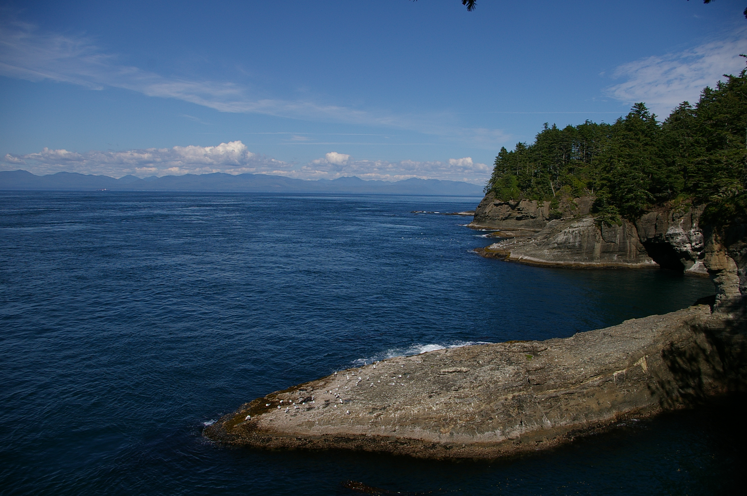 Cape Flattery looking north towards Vancouver Island